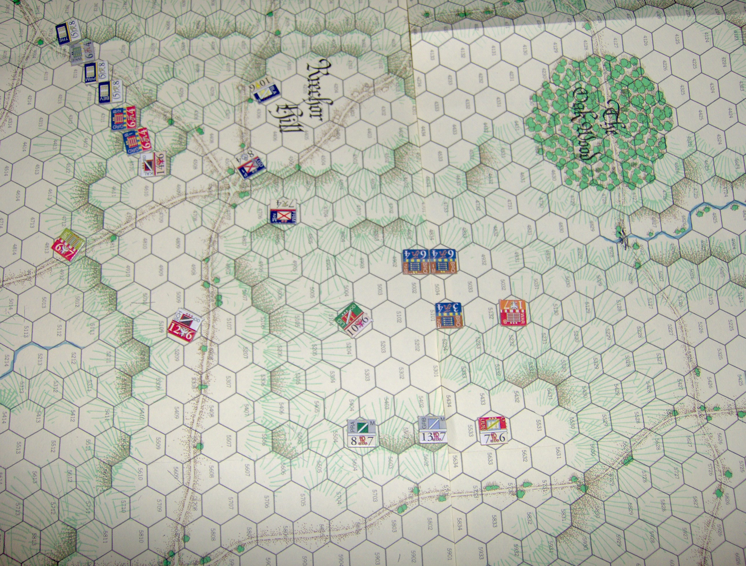 Presenta l'aspetto di una bordgame (wargame) in fase di gioco (in particolare la carica dei Dragoni di Vallonia - senza baffi - sulla fanteria prussiana). Gioco di riferimento: Kolin - Clash or Arms Games Presents the aspect of a boardageme (wargame)during the play. From a match using Kolin - Clash of Arms Games.